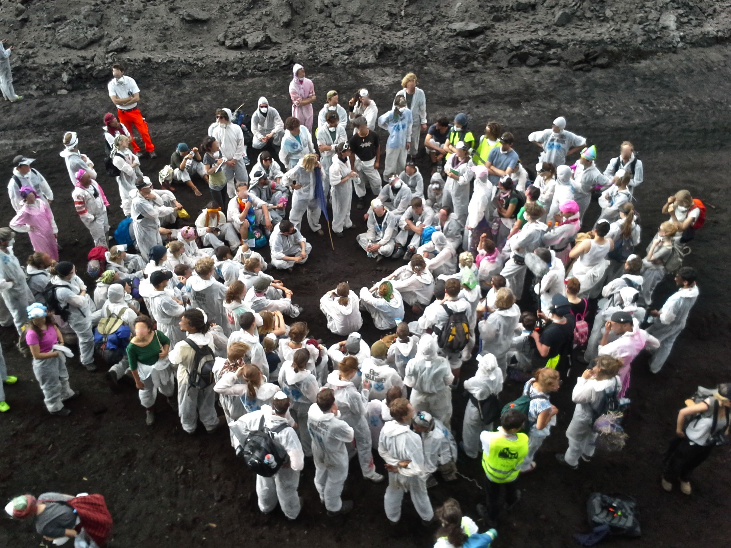 This years Ende Galeande not just shut down the mine, railroad transport and Schwarze Pumpe electrical power plant but also broke records in number of activists taking part in its action over 3500 and generated global attention for Climate Justice.